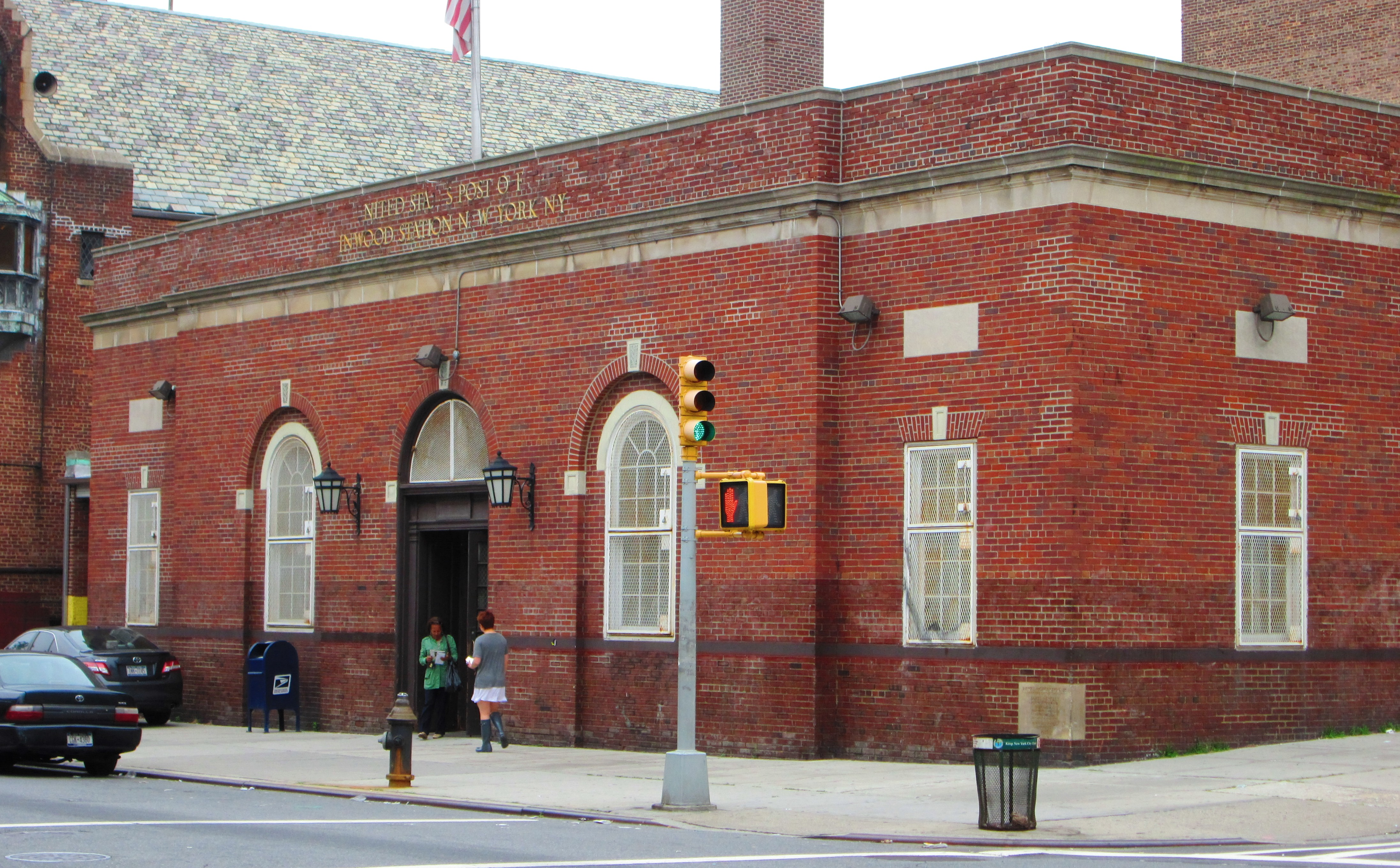 The U.S. Post Office Inwood Station, located at 90 Vermilyea Avenue at the corner of West 204th Street in the Inwood neighborhood of Manhattan, New York City, was built in 1935-37 and designed by Caroll H. Pratt in the Colonial Revival style.